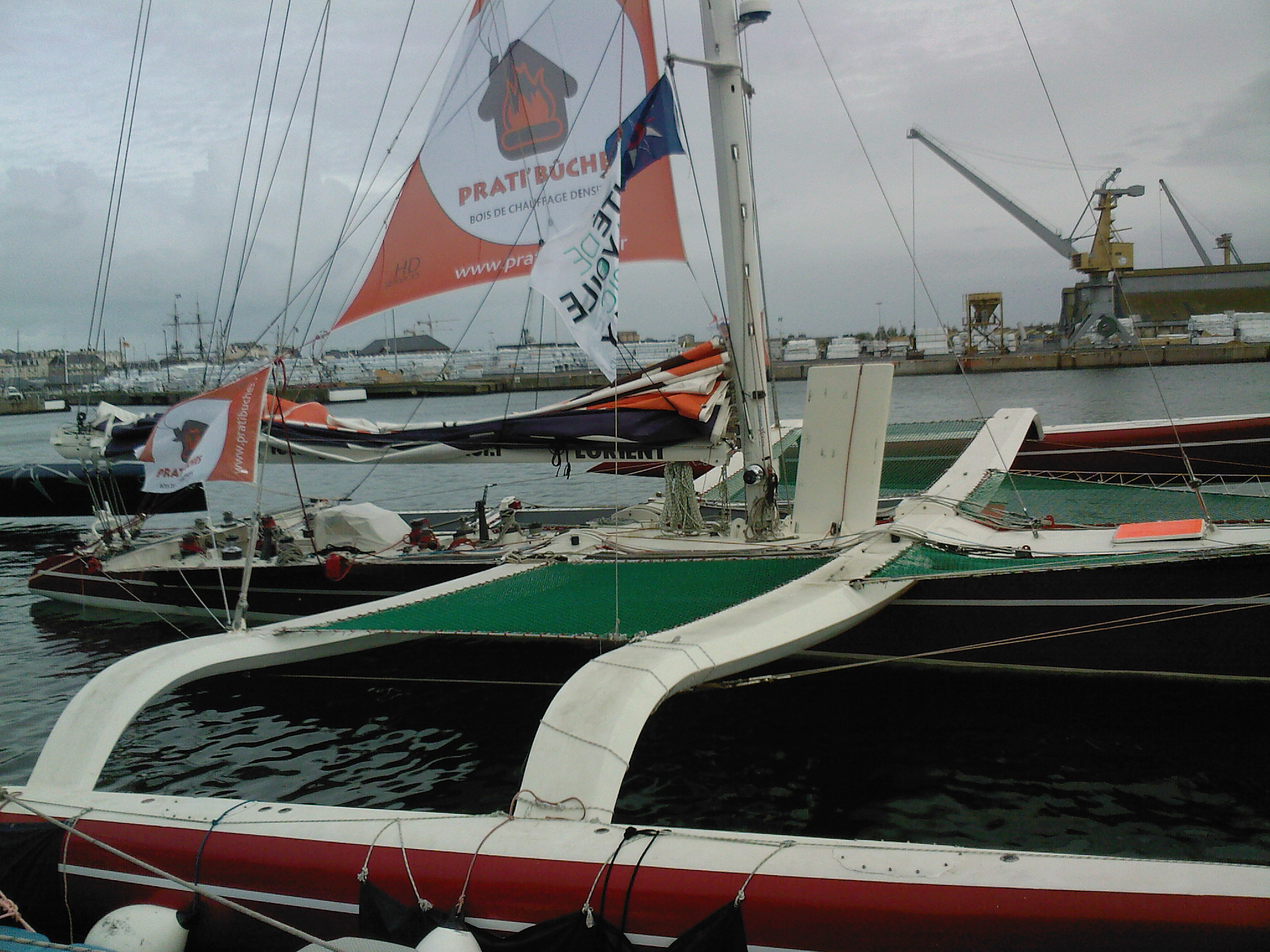 at ocean race route du rhum at saint malo britany france quay saint Louis cote d'or II by Bertrand Quentin (previously owned by eric tabarly)